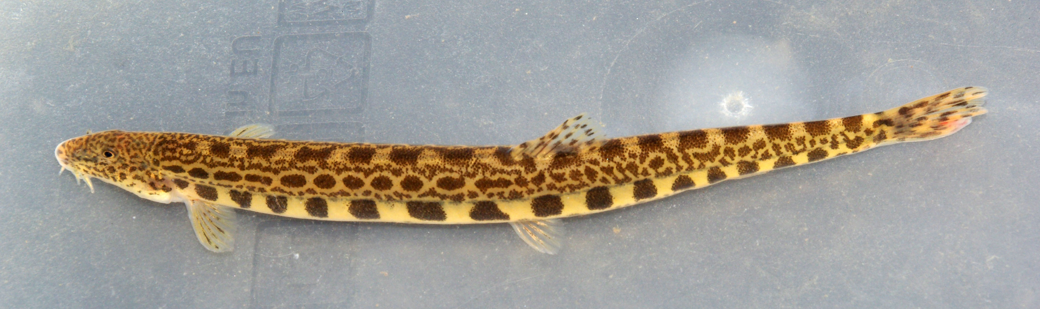 Cobitis calderoni. River Torío (Douro basin), near León, León (Spain)